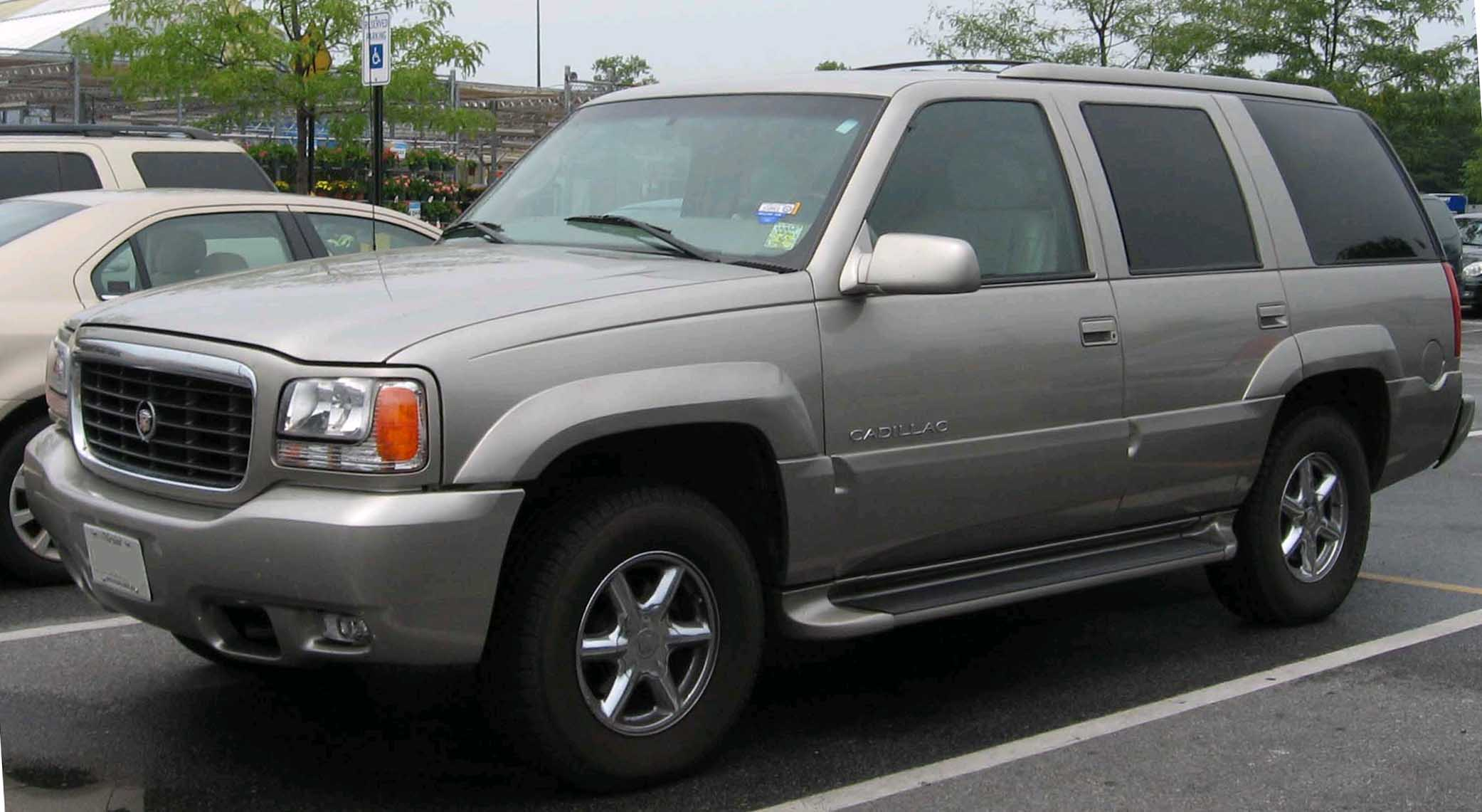 1999-2000 Cadillac Escalade photographed in Clinton, Maryland, USA.